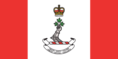 Flag of the Royal Military College of Canada, Arm embowed gauntleted, holding a sprig of three maple leaves, atop, a royal crown proper, with college motto.